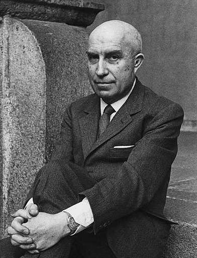 Italian jurist and political scientist Gianfranco Miglio, professor of political history at the Milan's Università Cattolica del Sacro Cuore, sitting on a step. 1960s.